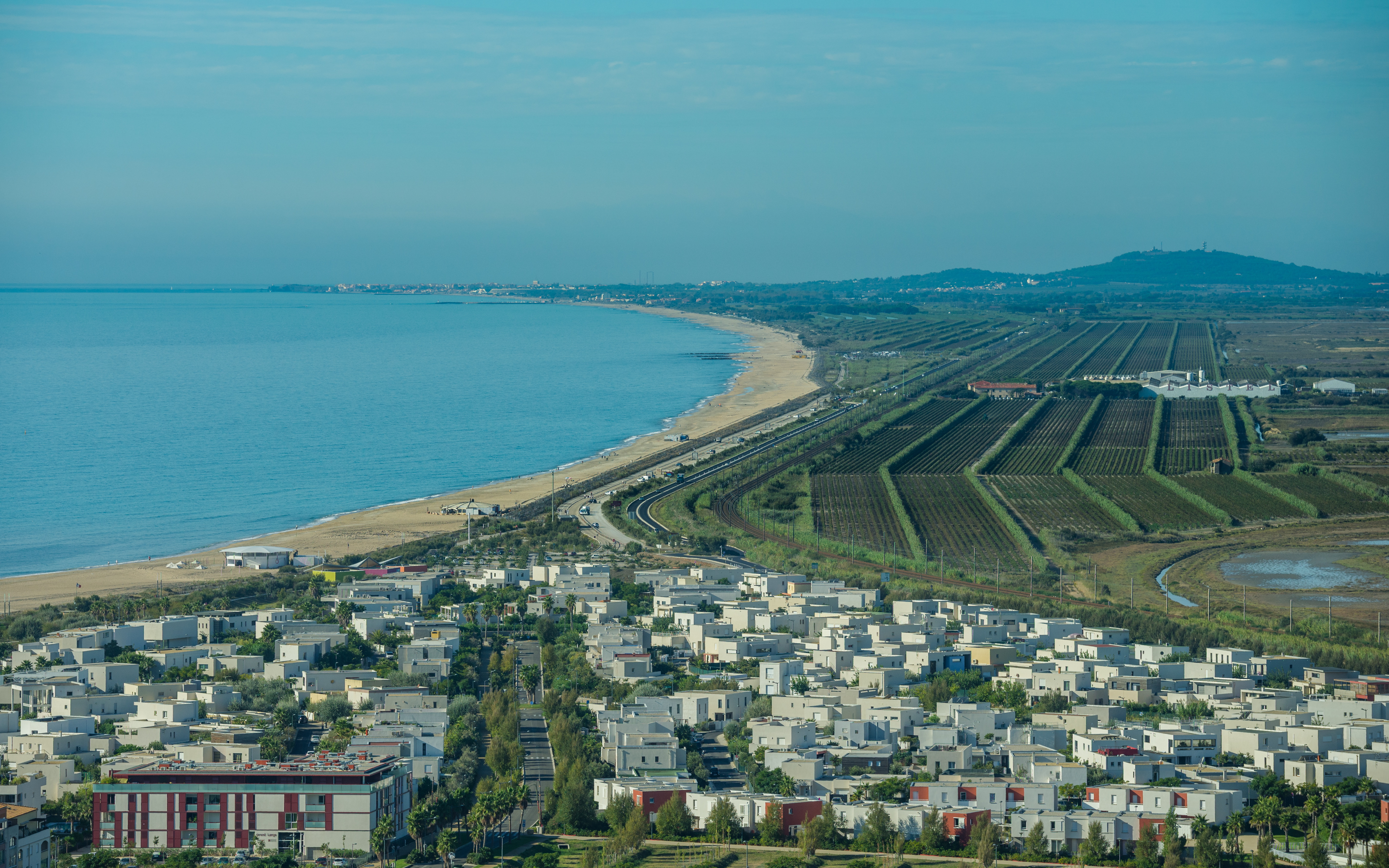 The beach and the sandspit between Sète and Marseillan. On the right the "Château de Villeroy" (Domaines de Listel) and its vineyards. Sète, Hérault, France.